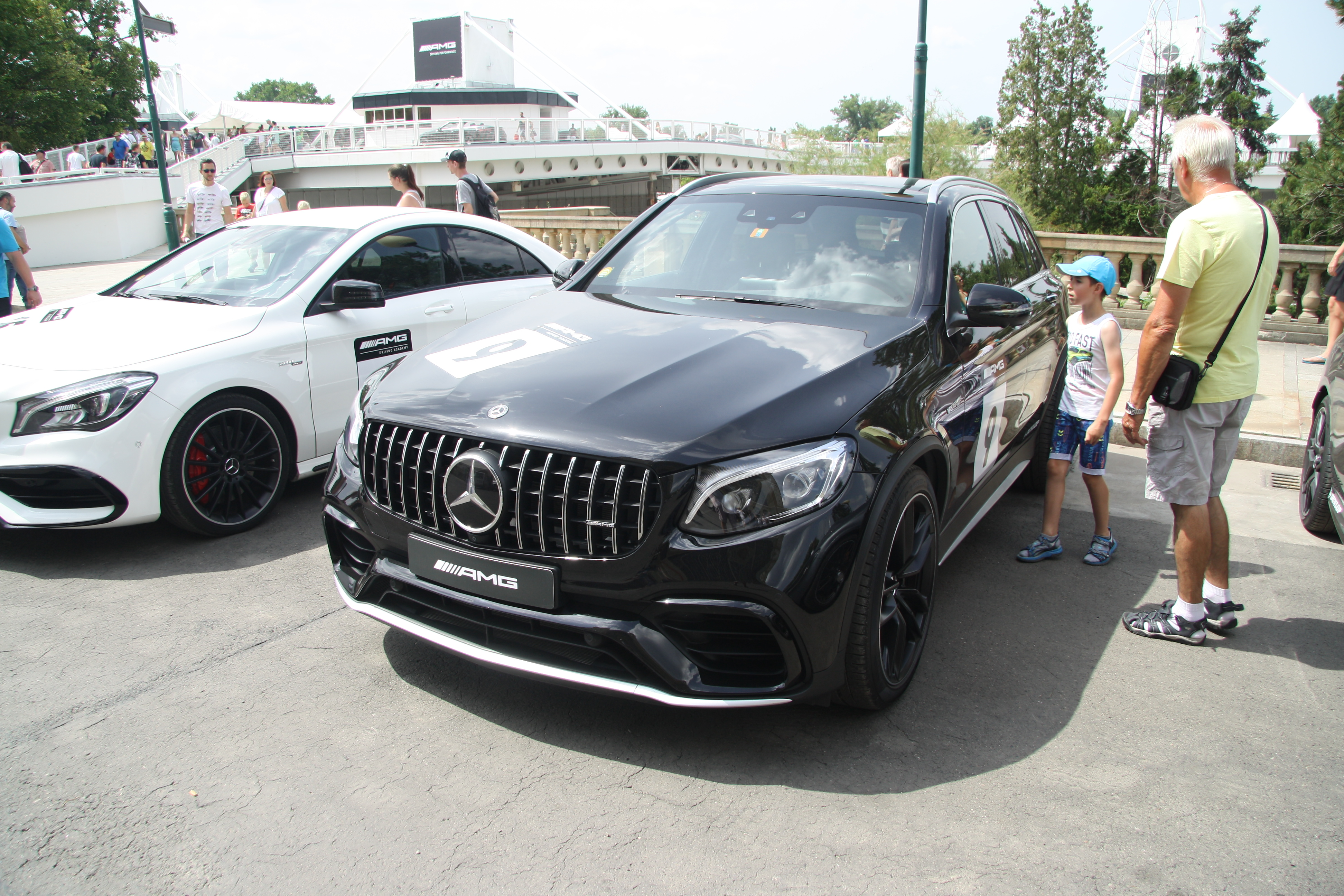 Mercedes Benz AMG GTC at Legendy 2018 in Prague.